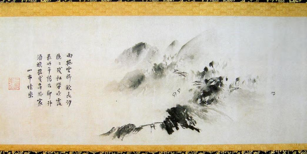 "Mountain market, clearing mist", Yu Jian, Song Dynasty, China